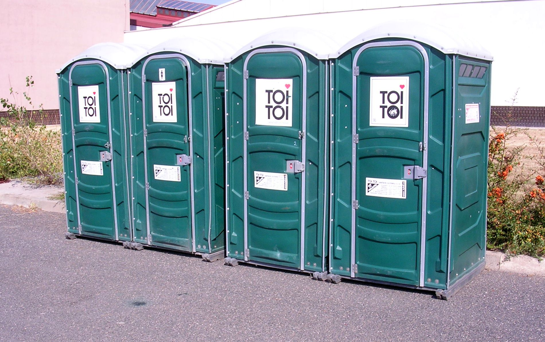 Třebonice, Prague, the Czech Republic. Open Doors Day in Zličín metro depot.